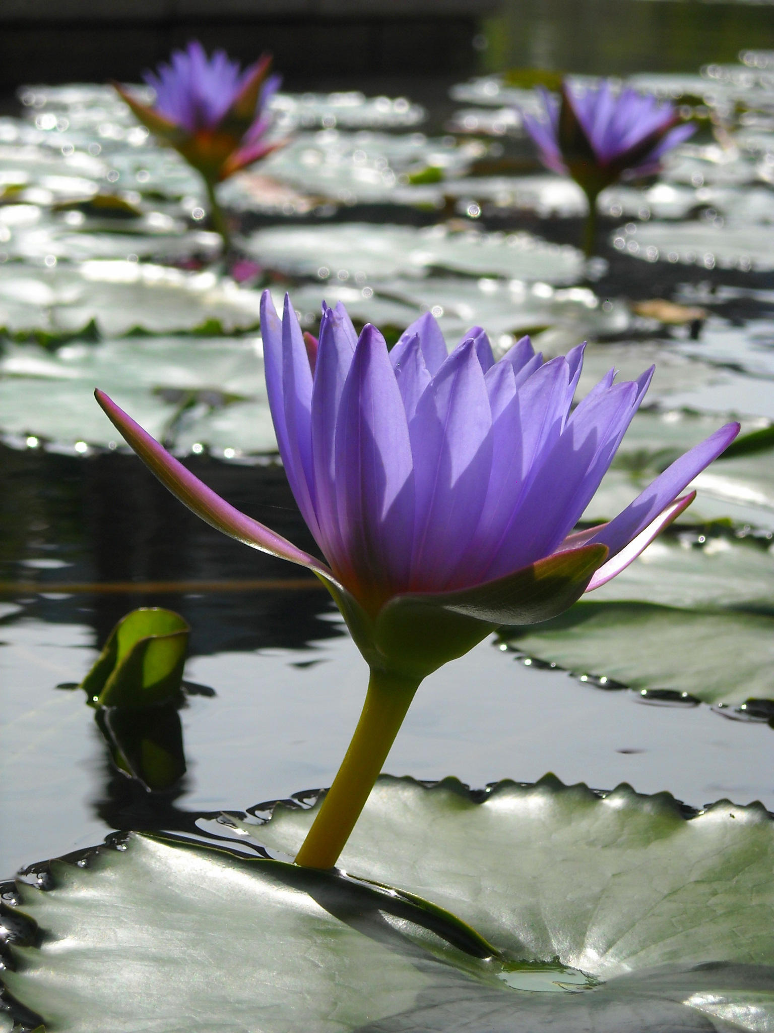 Floating lilies, the sun light showing its delicate petals structure and waxed leaves adapted for floating.